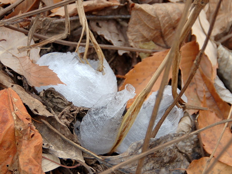 Frost columns of Keiskea japonica